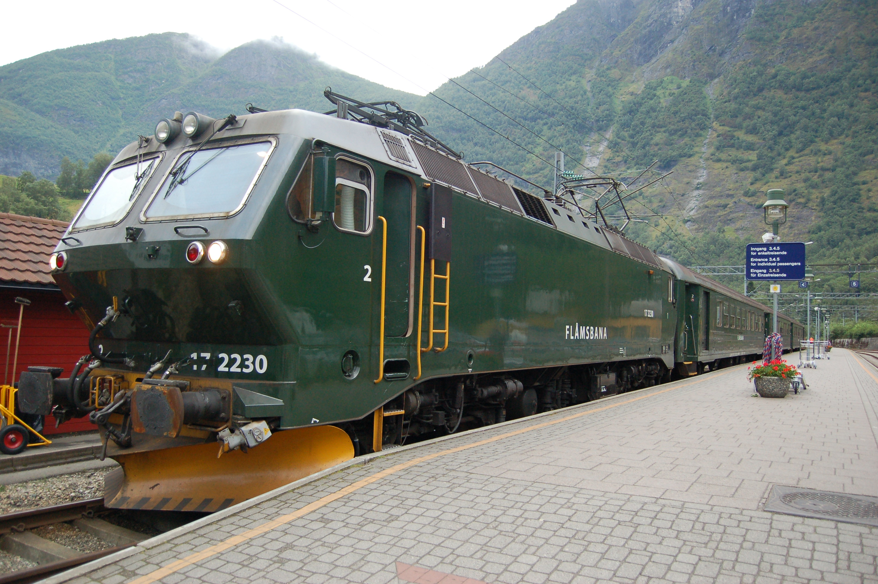 NSB El 17 at Flåm Station on Flomsbana, Norway